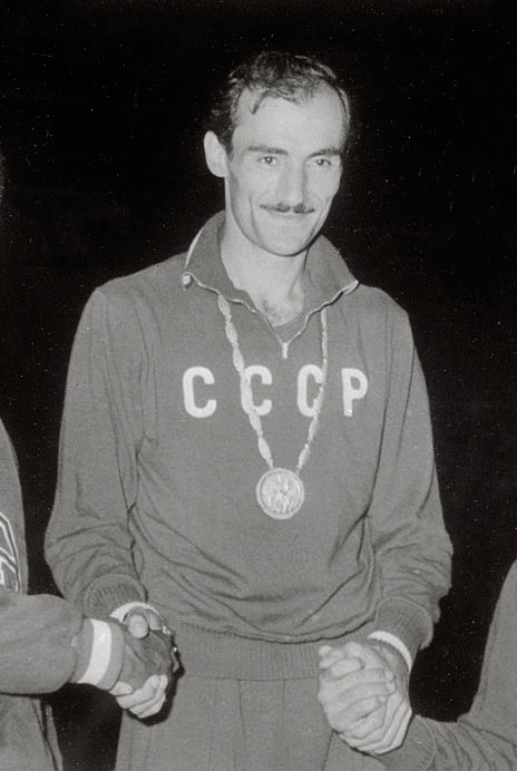 1960 Press Photo Robert Shavlakadze 1st (Rome Olympics, high jump podium)